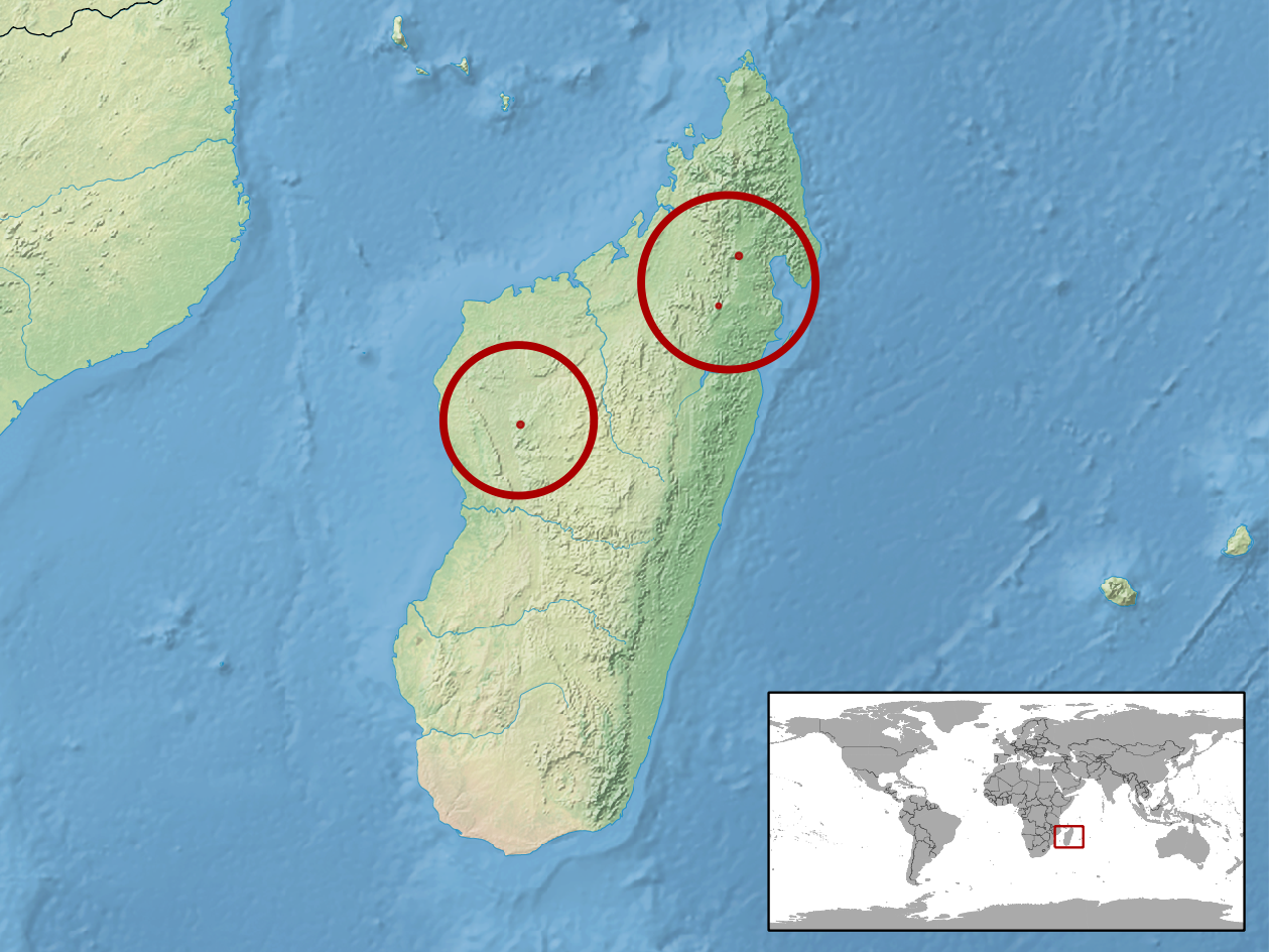 geographic distribution of Amphiglossus meva